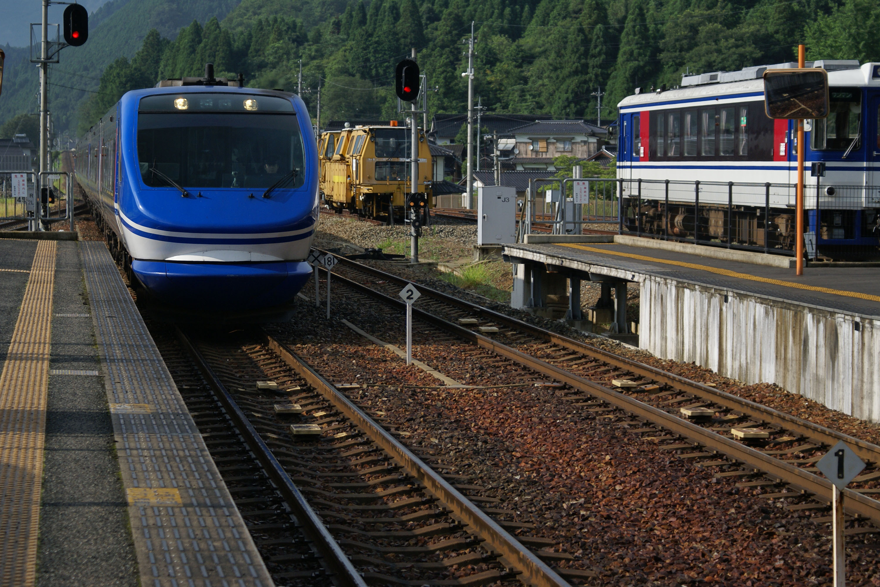 Ohara Station in Mimasaka, Okayama prefecture, Japan